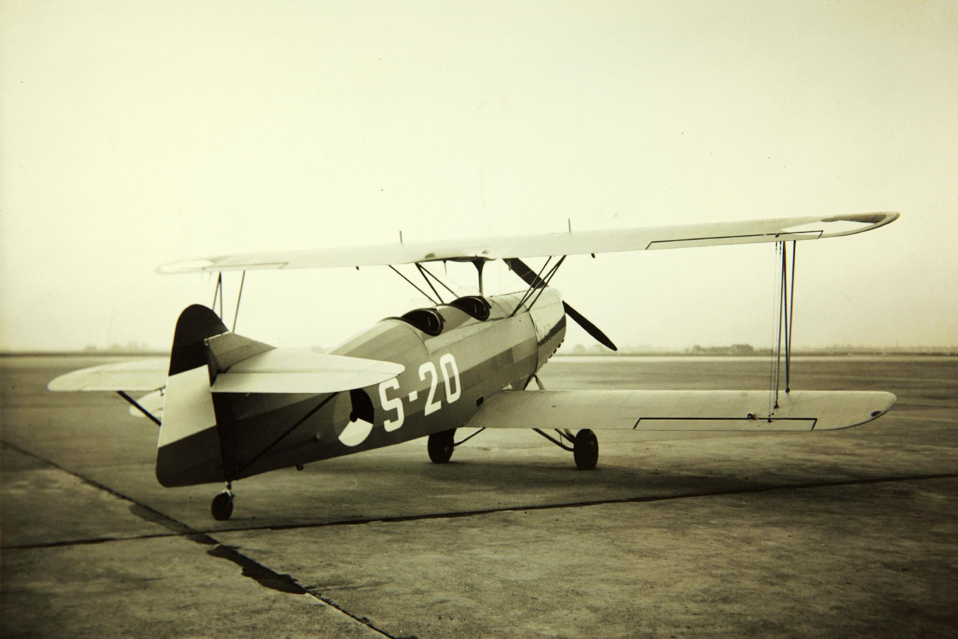 Fokker S.IX